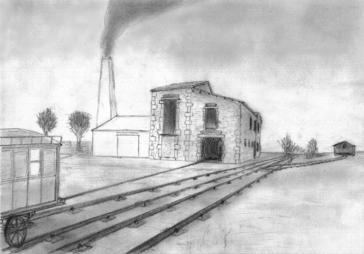 Inclined plane funicular Biesse in 1833